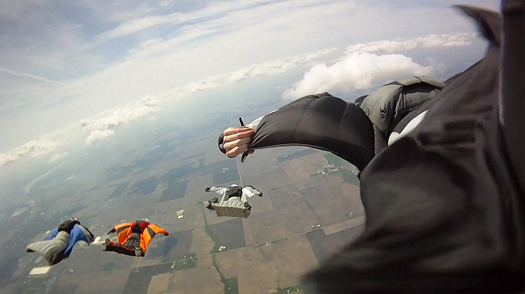 Chasing the Chicago Crew